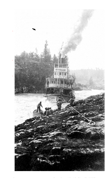 Photographer Unknown Photo taken 190? Source BC Archives # D-01864 [1]